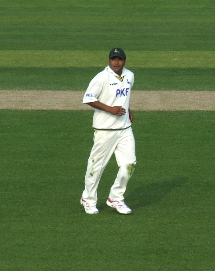 Samit Patel in the field for Nottinghamshire in a County Championship match against Leicestershire at Trent Bridge.